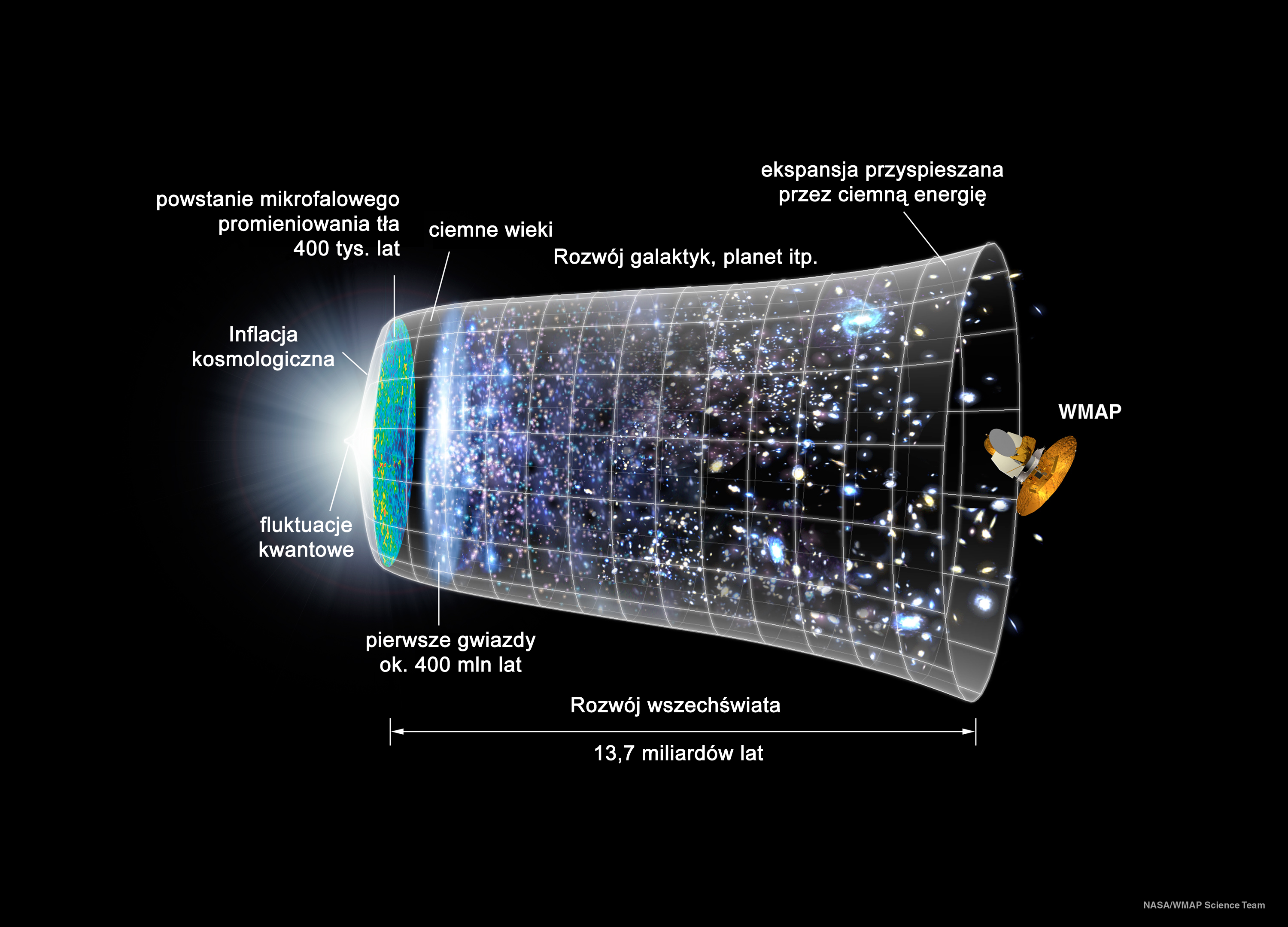 Time Line of the Universe Credit: NASA/WMAP Science Team [1]